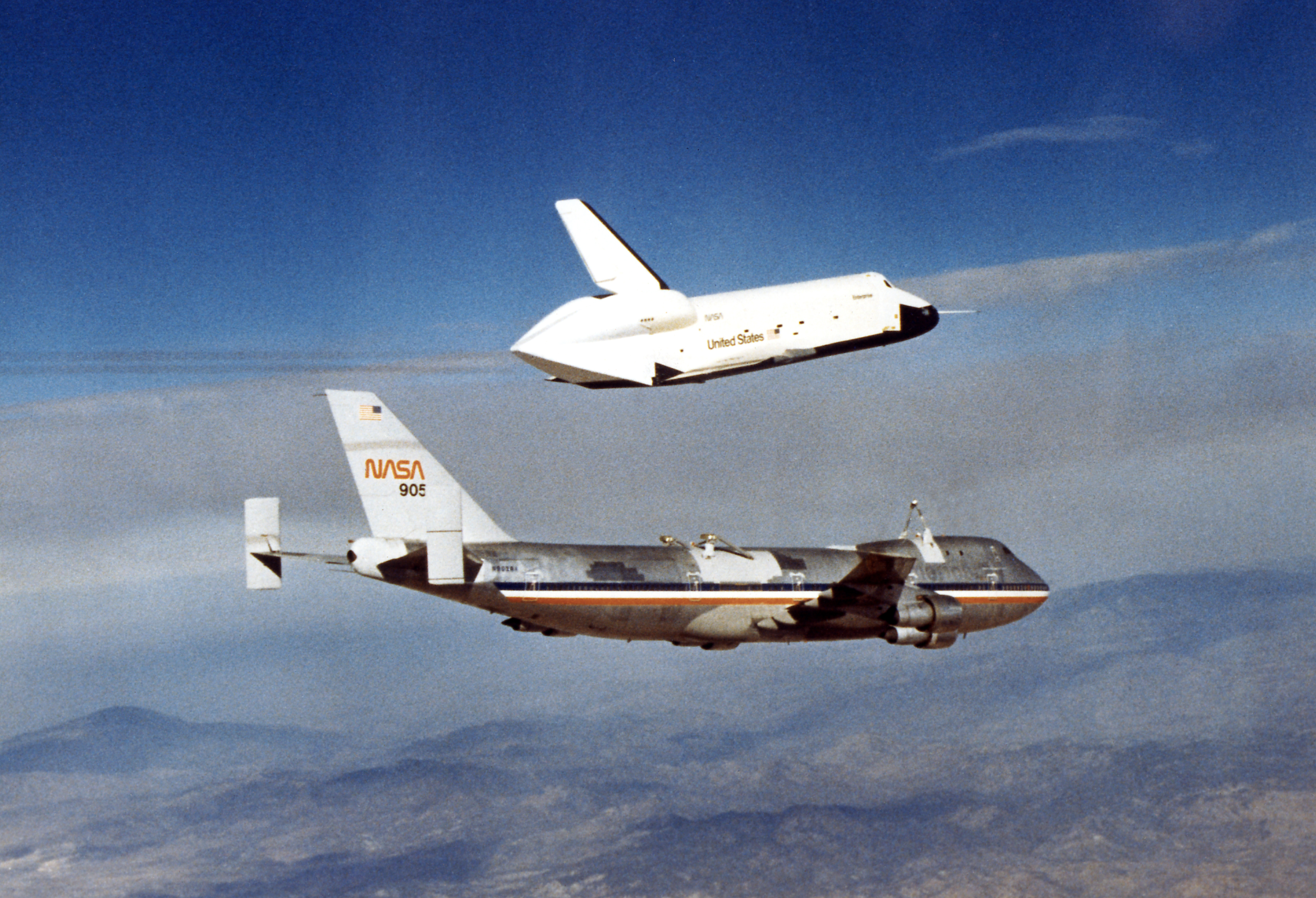 The Space Shuttle prototype Enterprise flies free of NASA's 747 Shuttle Carrier Aircraft (SCA) during one of five free flights carried out at the Dryden Flight Research Facility, Edwards, California in 1977 as part of the Shuttle program's Approach and Landing Tests (ALT). The tests were conducted to verify orbiter aerodynamics and handling characteristics in preparation for orbital flights with the Space Shuttle Columbia. A tail cone over the main engine area of Enterprise smoothed out turbulent airflow during flight. It was removed on the two last free flights to accurately check approach and landing characteristics.